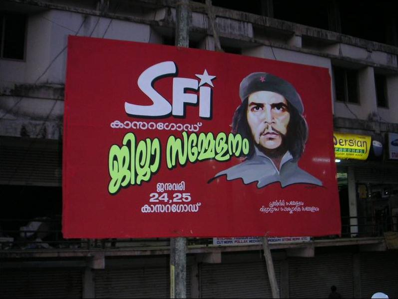 Students Federation, Kasaragod District Conference 24-25 January 2004. Photo: Soman.